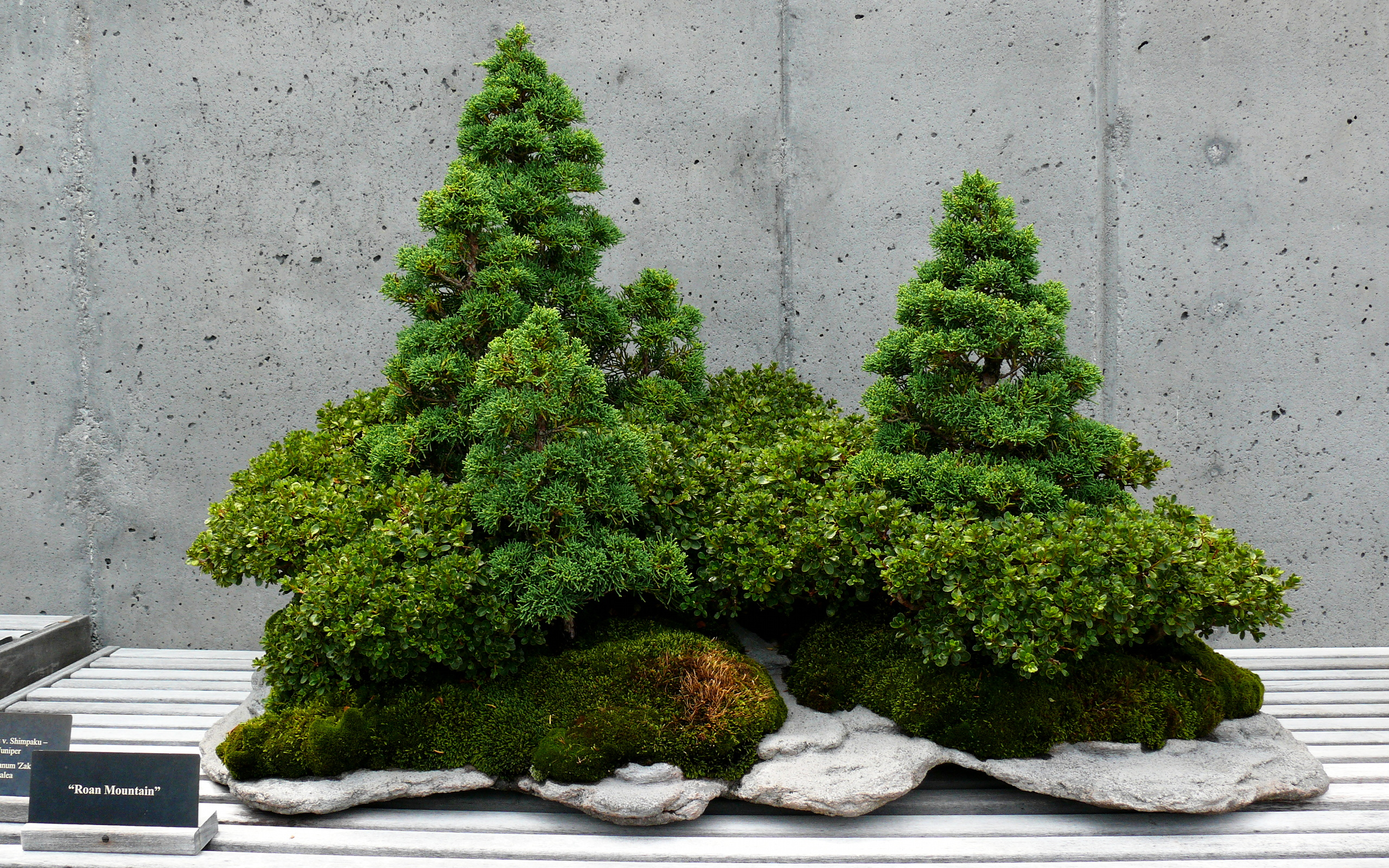 Bonsai display at the North Carolina Arboretum. Roan Mountain features Shimpaku Juniper (Juniperus chinensis sargentii) and Zakura Azalea (Rhododendron kiusianum zakura). Photo taken with a Panasonic Lumix DMC-FZ50 in Buncombe County, NC, USA.